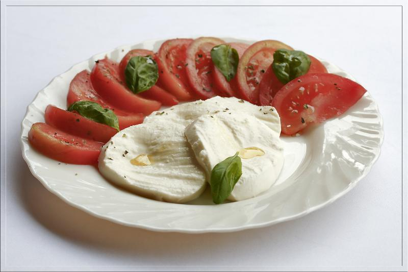 Caprese